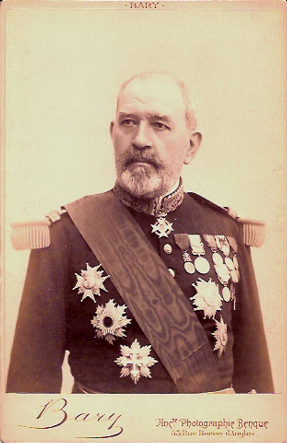 Depicted person: Henri Rieunier – French politician